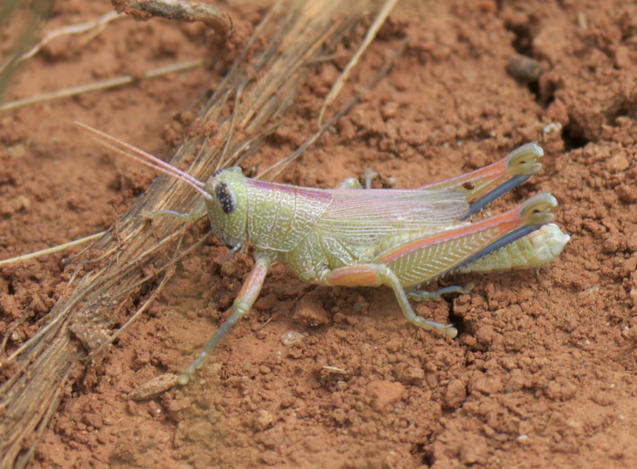 Hesperotettix speciosus, Showy Grasshopper, male, ID Confidence: 98